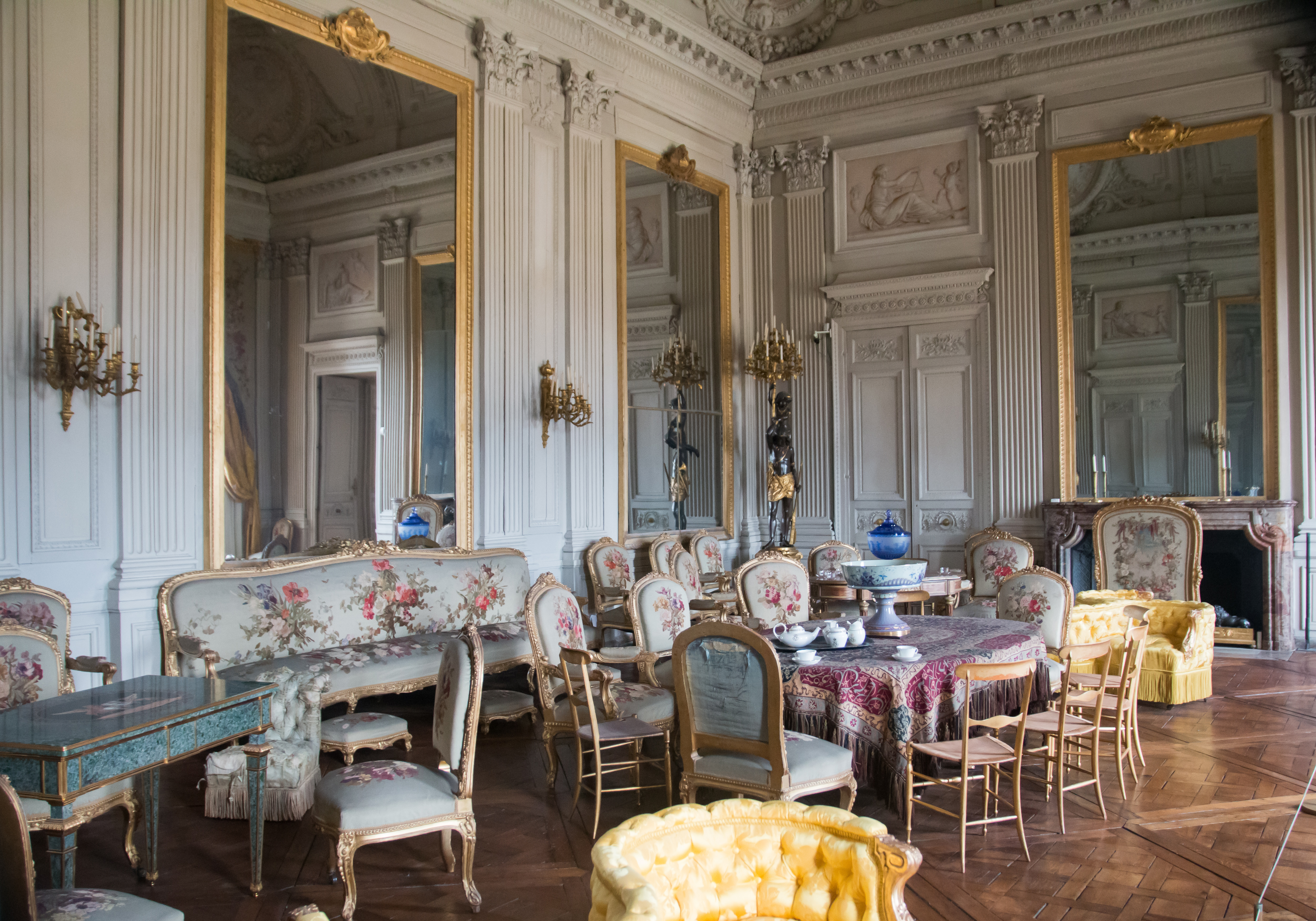 Hall of the Family.